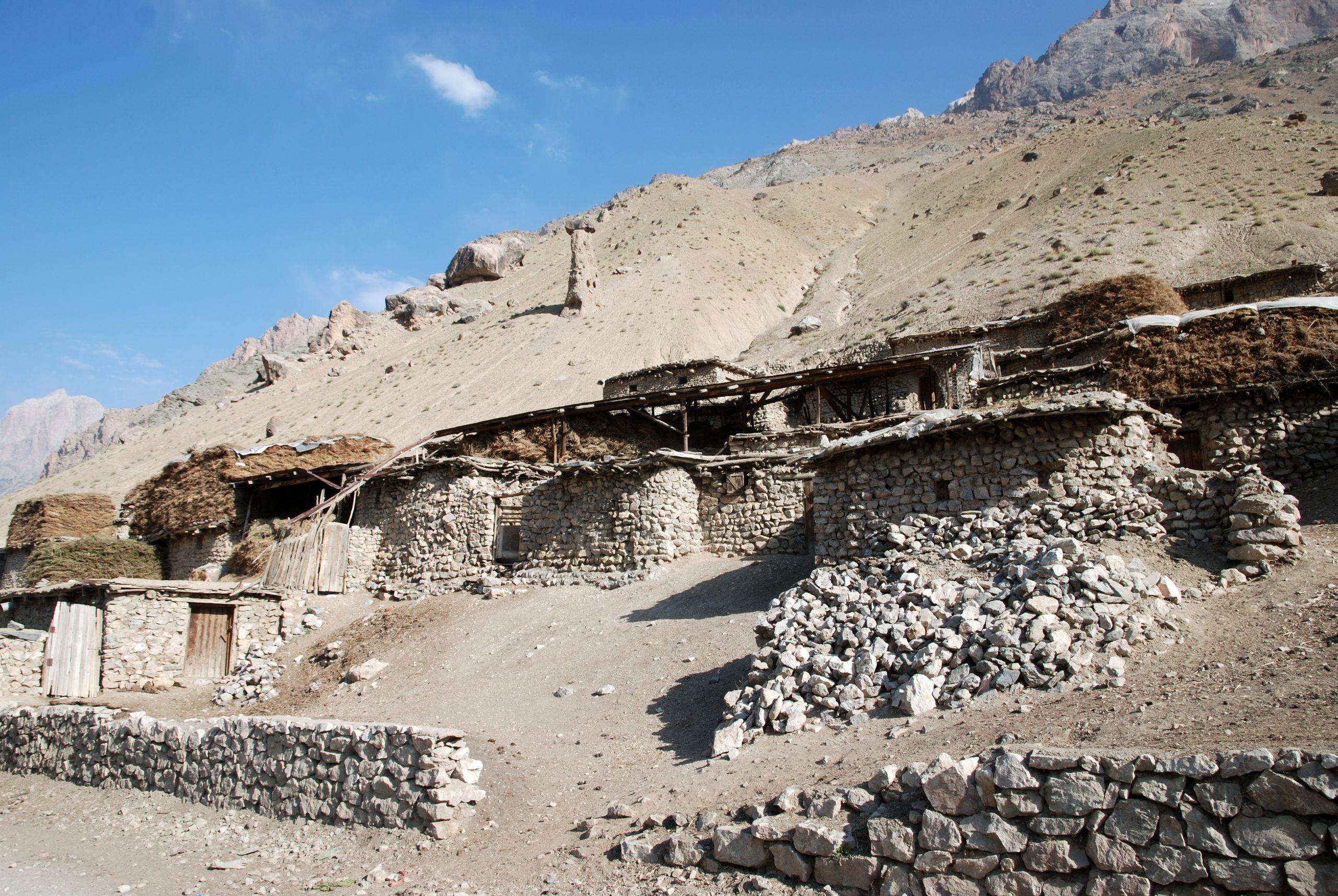 Anzob, village